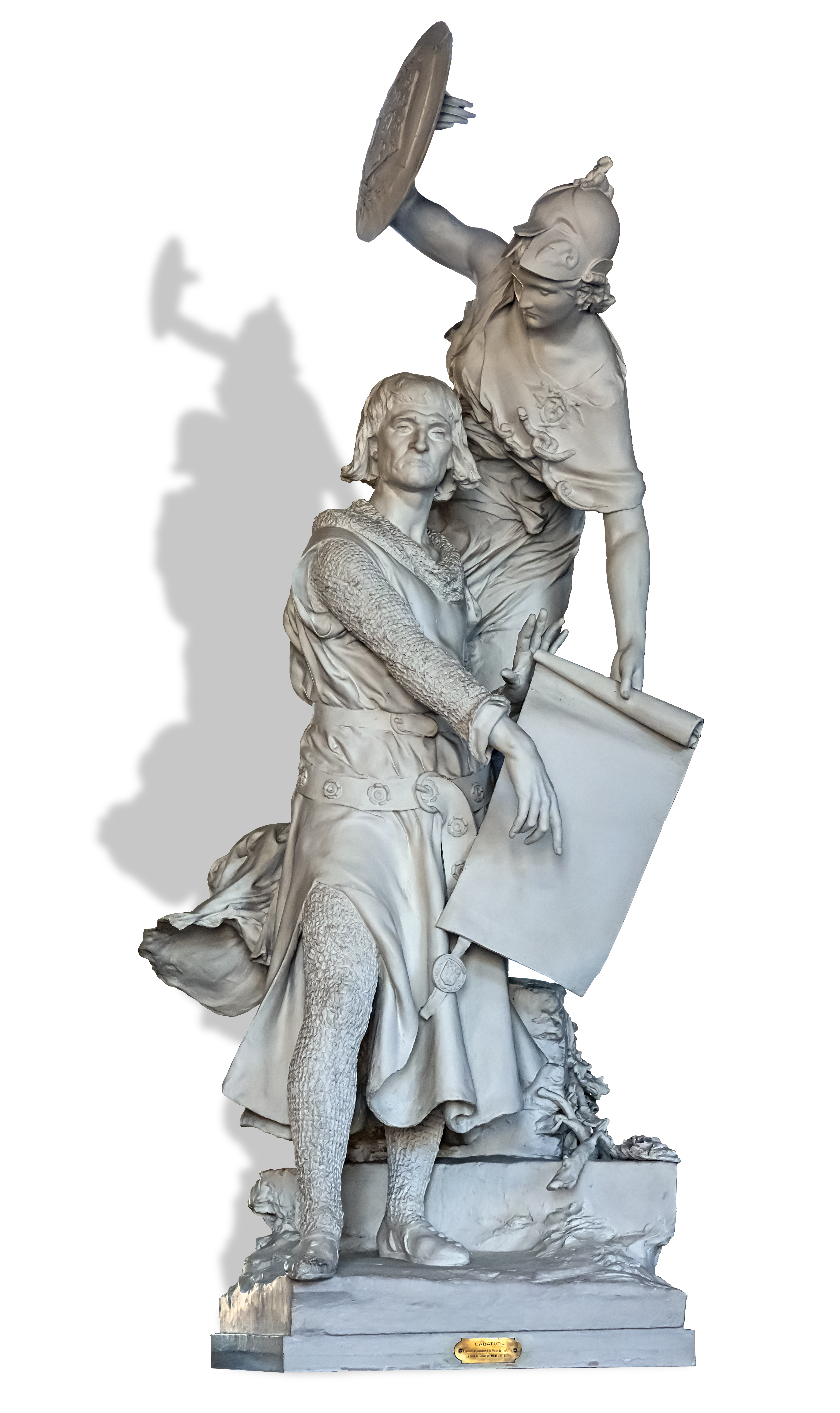 Depicted person: Raymond VI, Count of Toulouse – Count of Toulouse